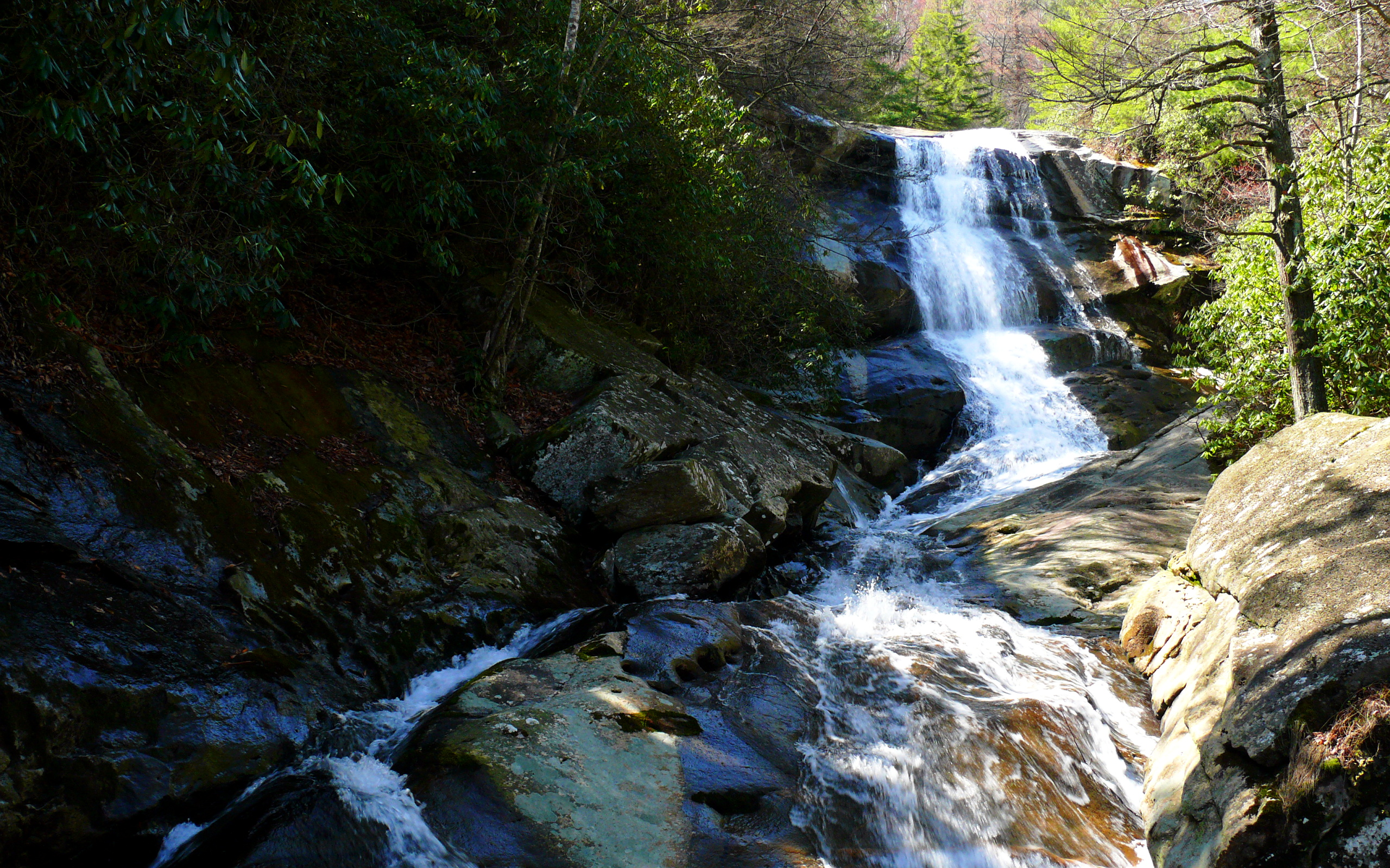 Upper Creek Falls on Upper Creek (part of the Catawba River watershed) in the Pisgah National Forest. Photo taken with a Panasonic Lumix DMC-FZ50 in Burke County, NC, USA.